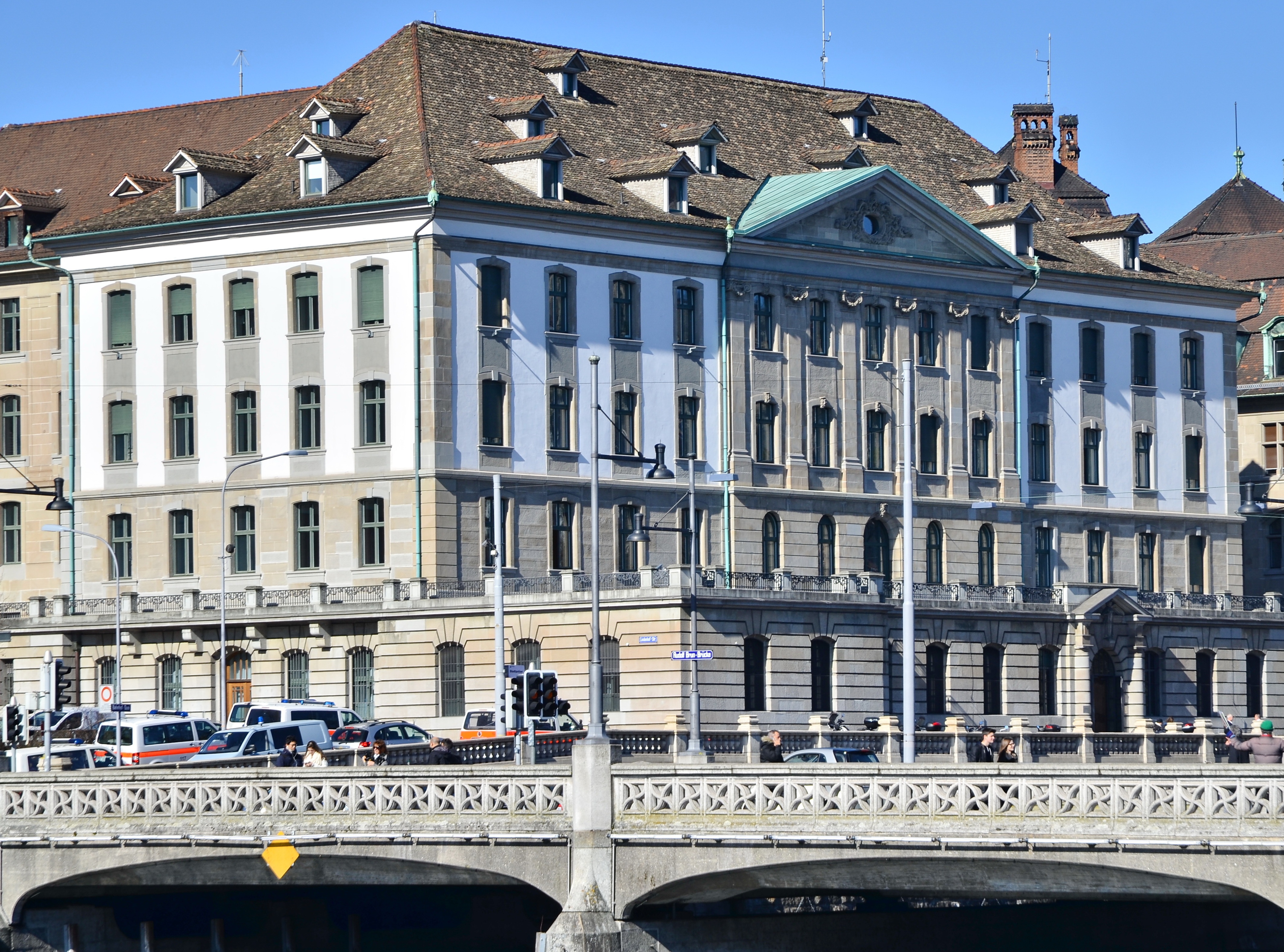 Amthaus I in Zürich (Switzerland), as of today the Stadtpolizei (City Police) station respectively the former Waisenhaus (orphanage) building of the Oetenbach nunnery, as seen from Limmatquai.